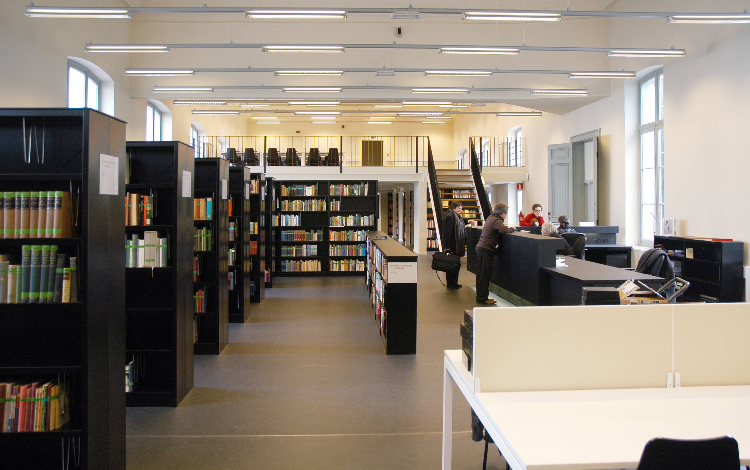 Inside the new Ghent University Letters & Philosophy faculty library at the Rozier building on the opening day (February 13th 2012).